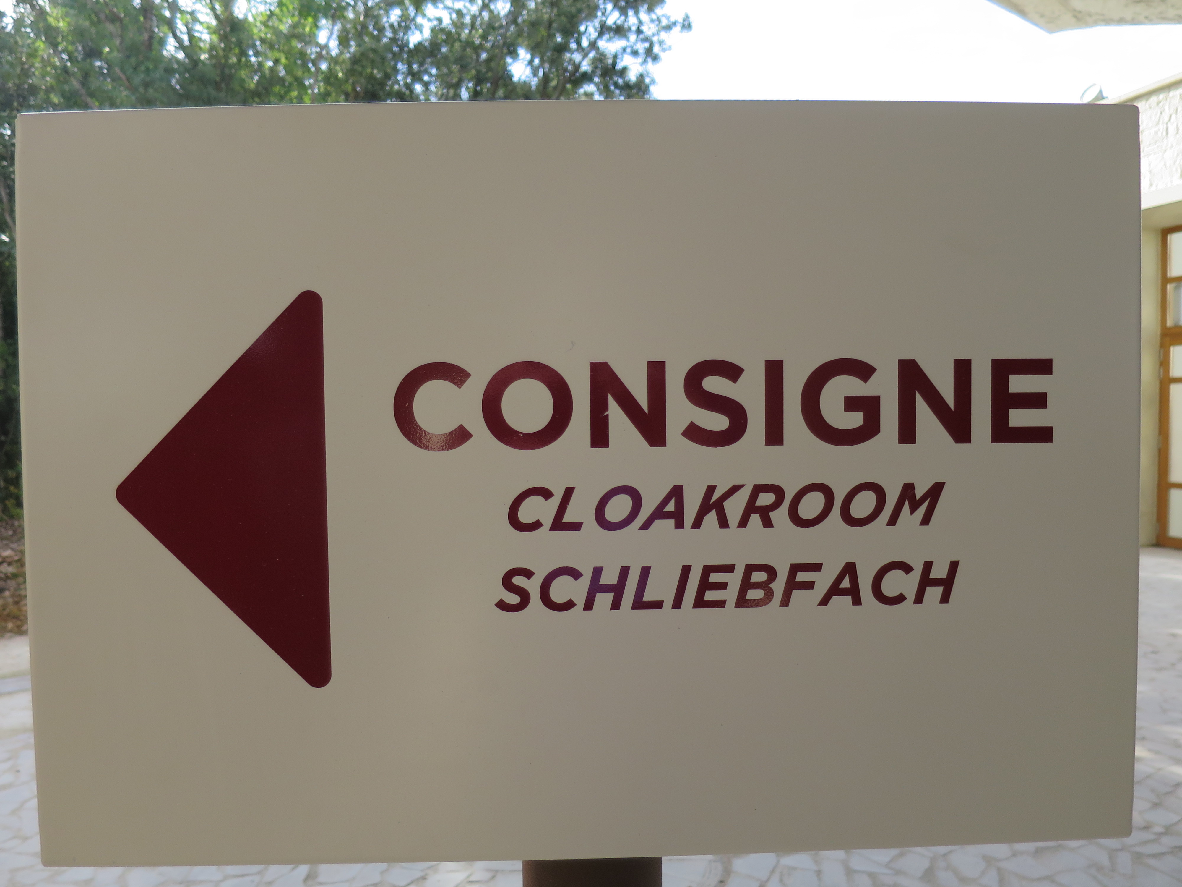 wrongly transcribed German letter ß